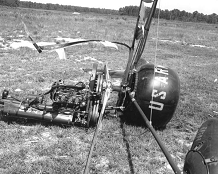 de Lackner HZ-1 Aerocycle following a crash during test flying